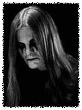 Created by Osmose Productions and usage granted by copyright holder under GFDL (1.2 or later). Originally found at Immortal's site.